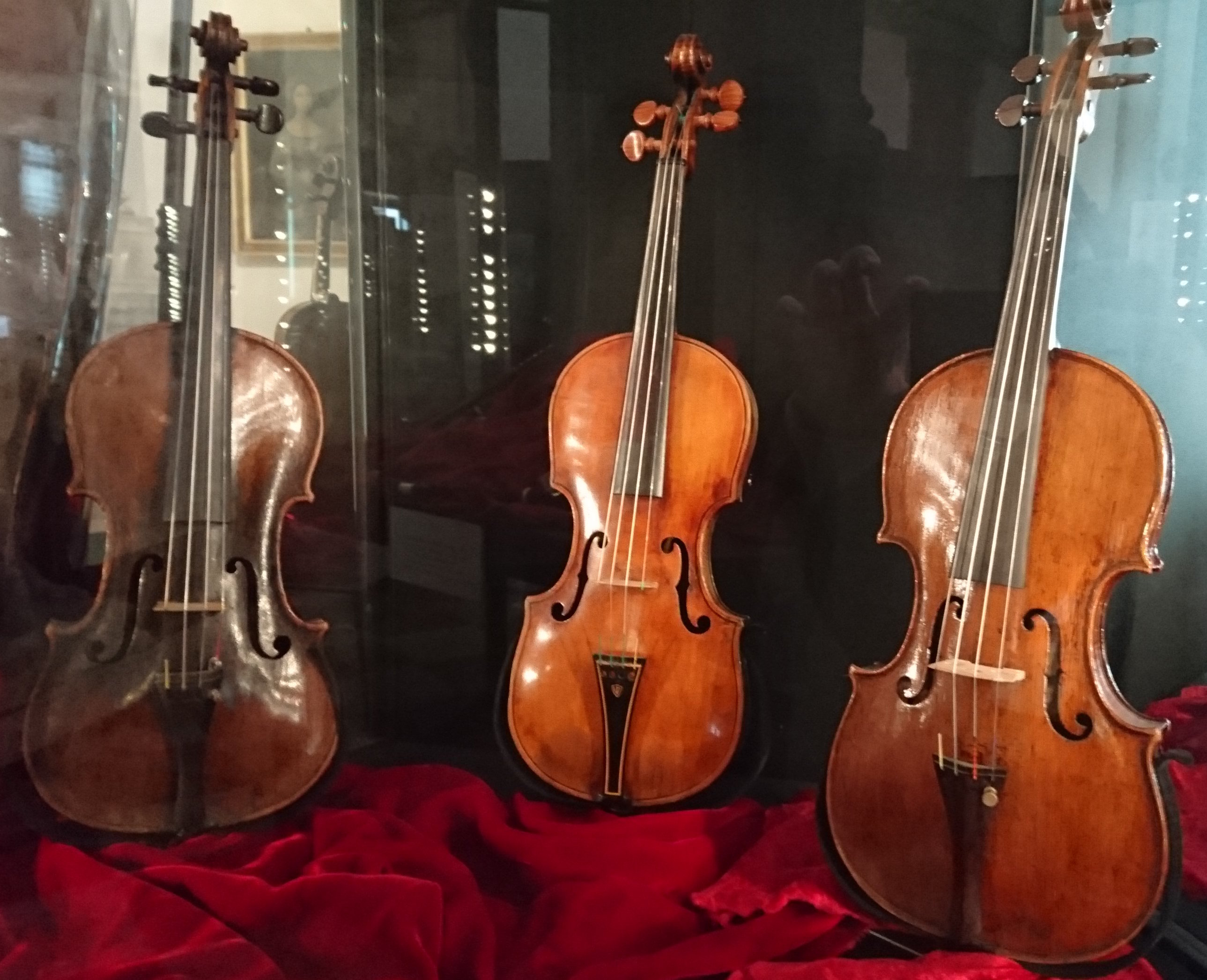 Three violins Antonio Mariani, 1670, Pesaro Joseph Artani, 1762, Milano Bernardo-Calcanius, 1750, Genova from the Artemio Maestro Versari collection